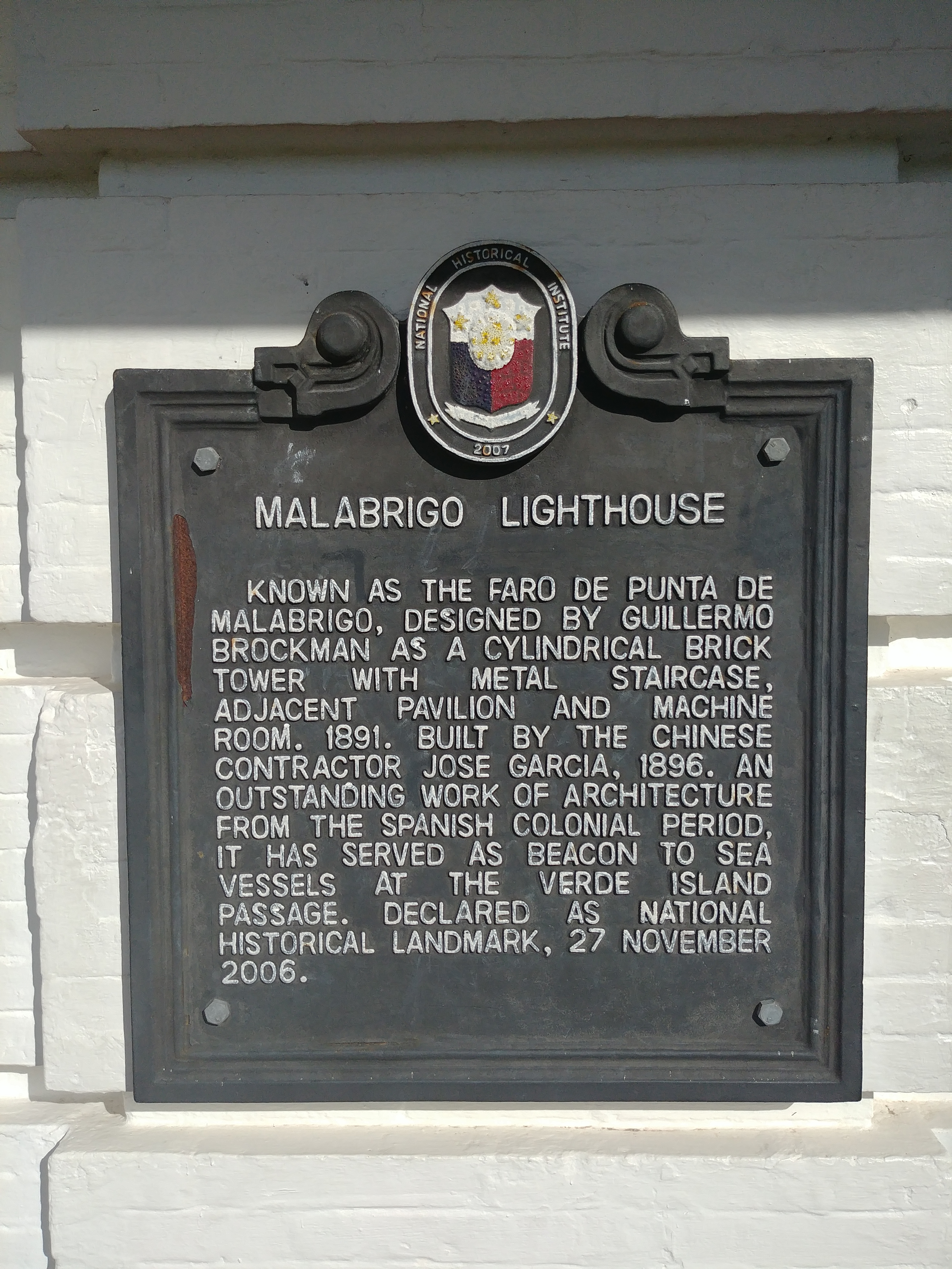 The historical marker in English installed by the National Historical Commission of the Philippines at the Malabrigo Point Lighthouse in Lobo, Batangas on November 27, 2006.